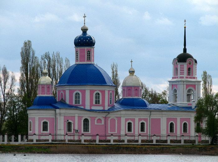 Church of the Resurrection in Sloviansk, Donetsk Oblast, Ukraine